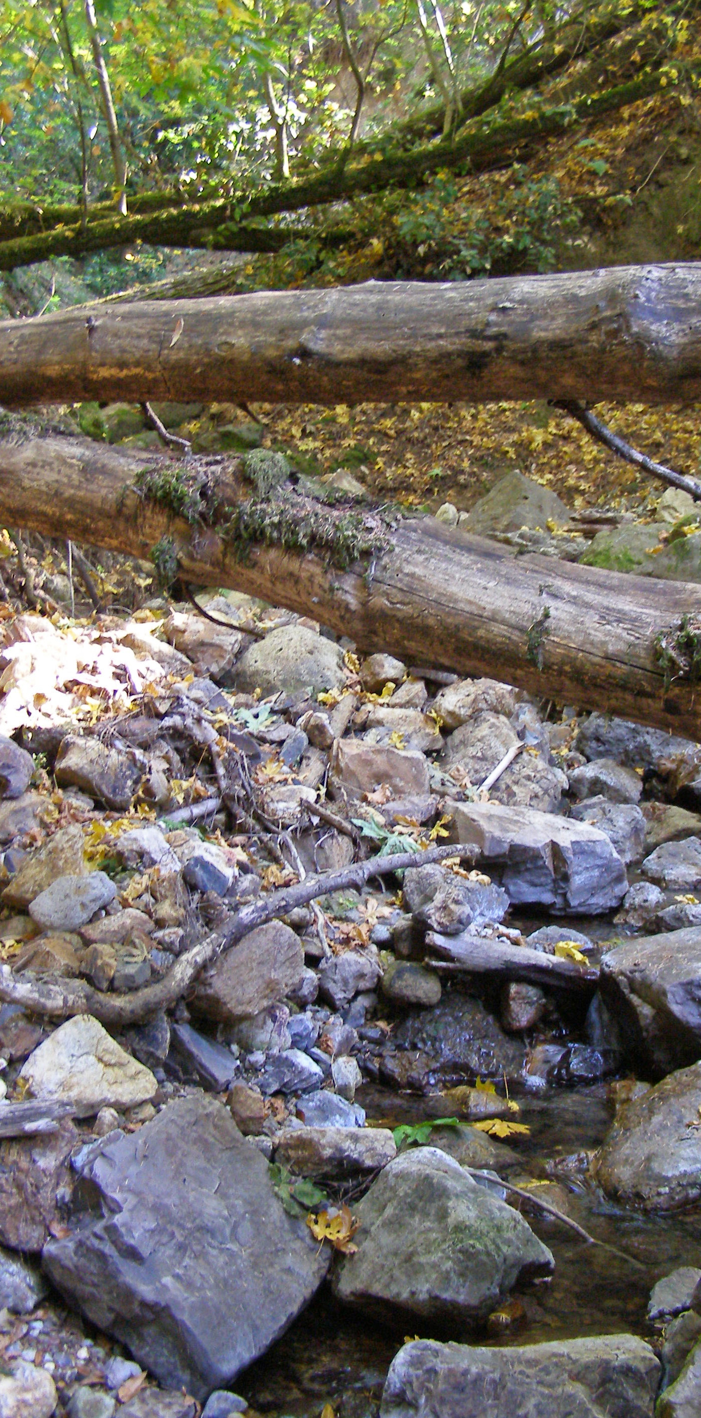 Photographer: self